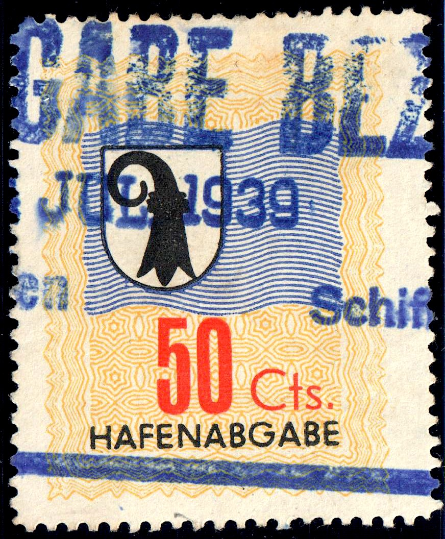 Switzerland Basel 1934 harbour due 50c - 3, perforated 11.5.